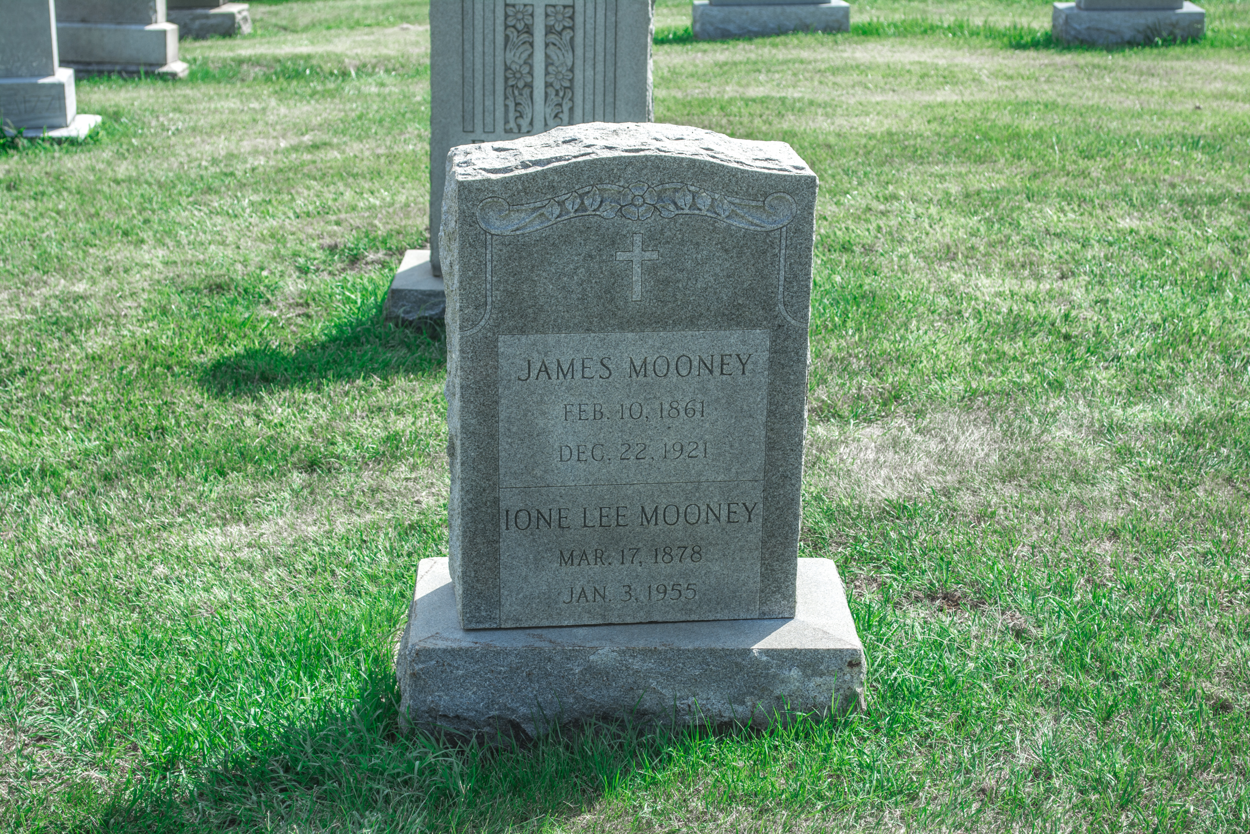 Grave of James Mooney in section 53 at Mount Olivet Cemetery in Washington, D.C., in the United States. Mooney was born February 10, 1861, in Richmond, Indiana. He was educated in the city's public schools, where he became fascinated with Native American culture and history. He immediately headed for the American frontier, where he became a self-taught expert on First Peoples. Usually living with various tribes to learns their culture, he became a participant-observer ethnographer whose remarkably detailed and accurate studies, largely free of European influences, are still widely used today. Between 1885 and 1890, he began compiling a list of every tribe that ever existed in the United States. His list runs to 3,000 names. Mooney's lengthiest and most famous studies were of Southeastern and Great Plains Indians, and he lived for years among the Cherokee. He wrote two major treatises: "The Sacred Formulas of the Cherokees" (1891) and "Myths of the Cherokee" (1900). He also wrote a notable study of the Ghost Dance, a widespread religious movement among various Native American cultures after 1890. Mooney died of heart disease in Washington, D.C. on December 22, 1921.